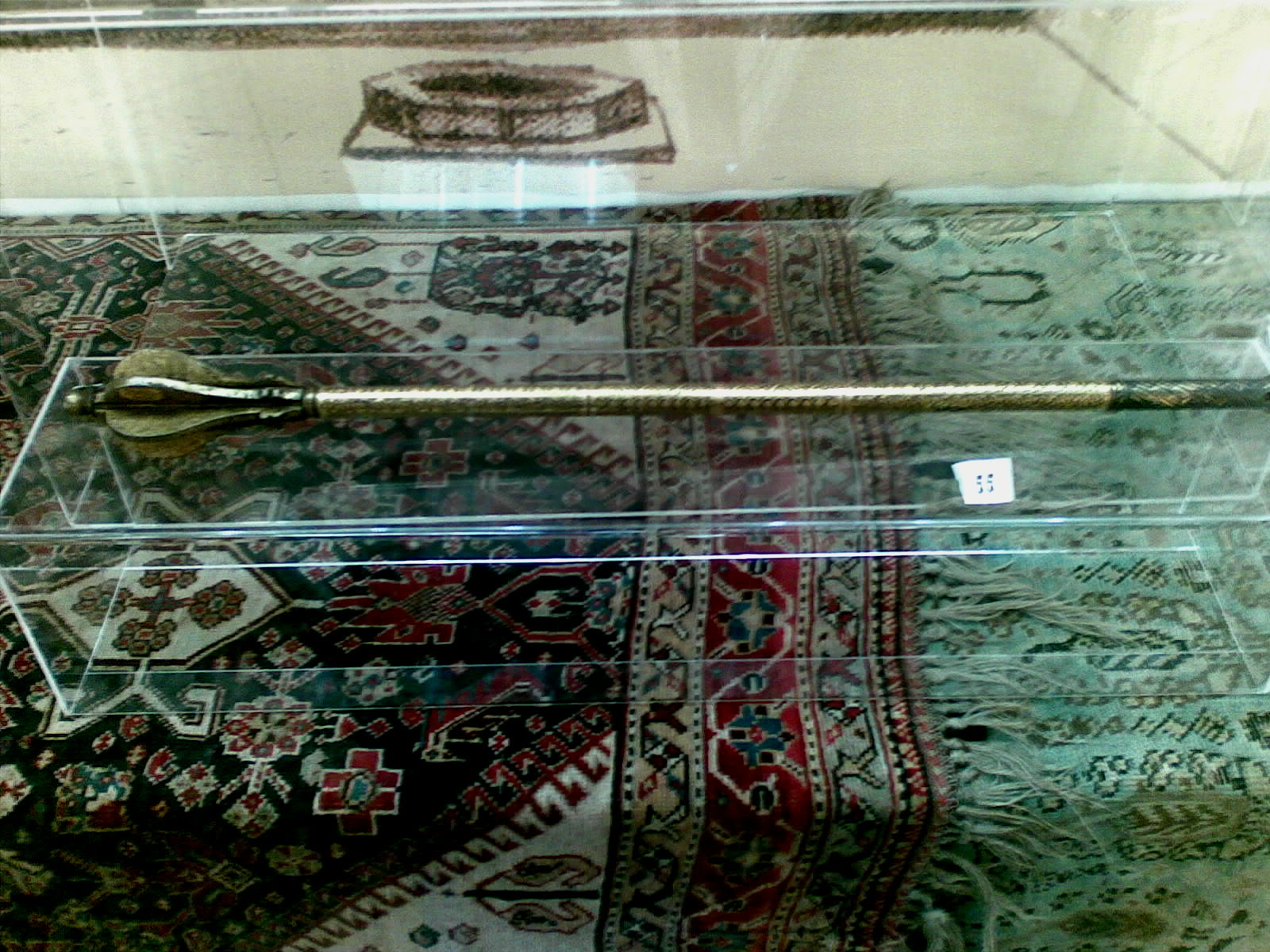 Buncugh of Bakhu khanate, saved National History Museum of Azerbaijan